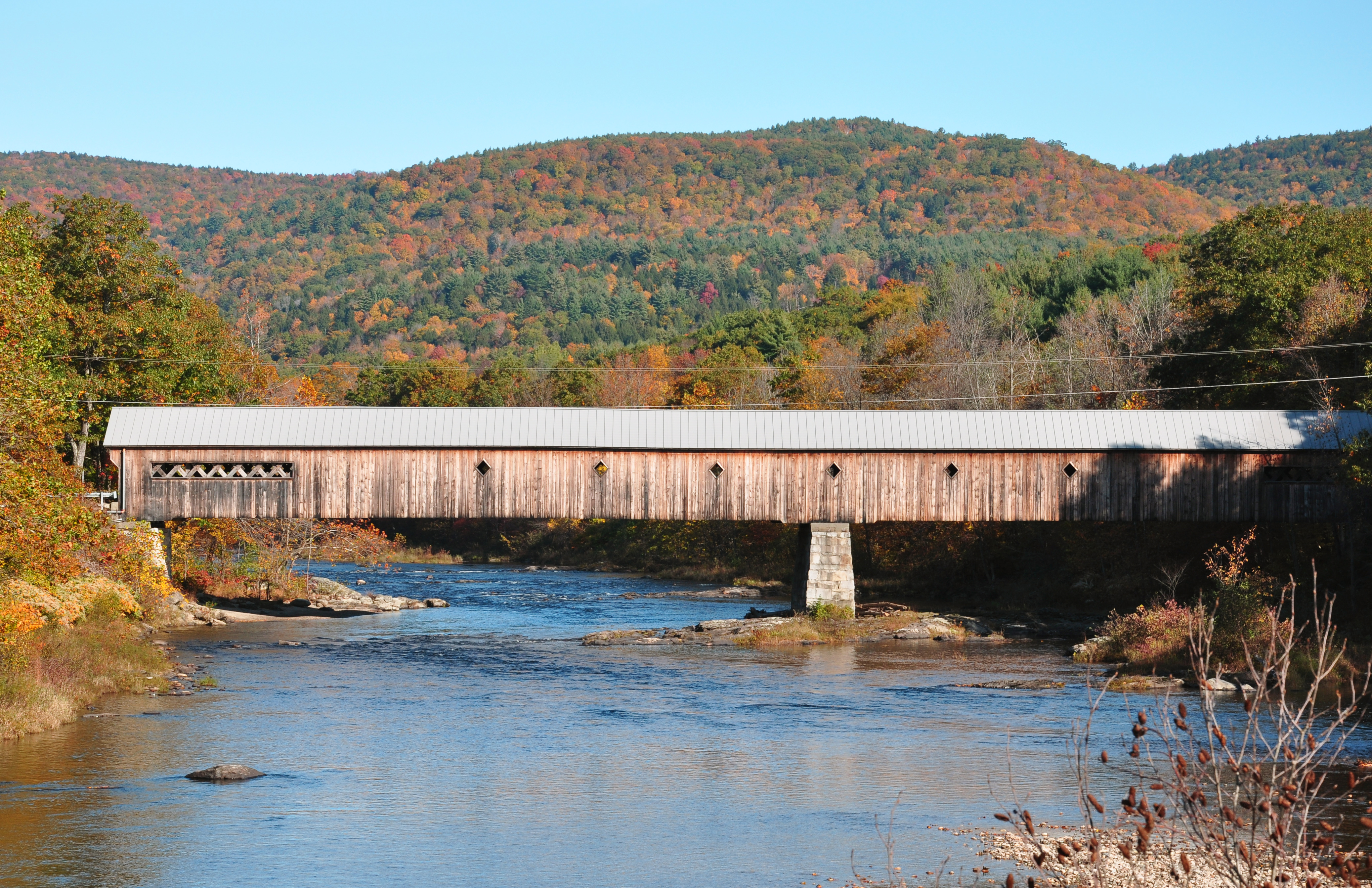 Covered bridge, Dummerston Vermont, with fall foliage, 2009. Known as the West Dummerston Bridge, it is the longest covered bridge in Vermont. It was completely rebuilt in 1998. A state Historic Site.